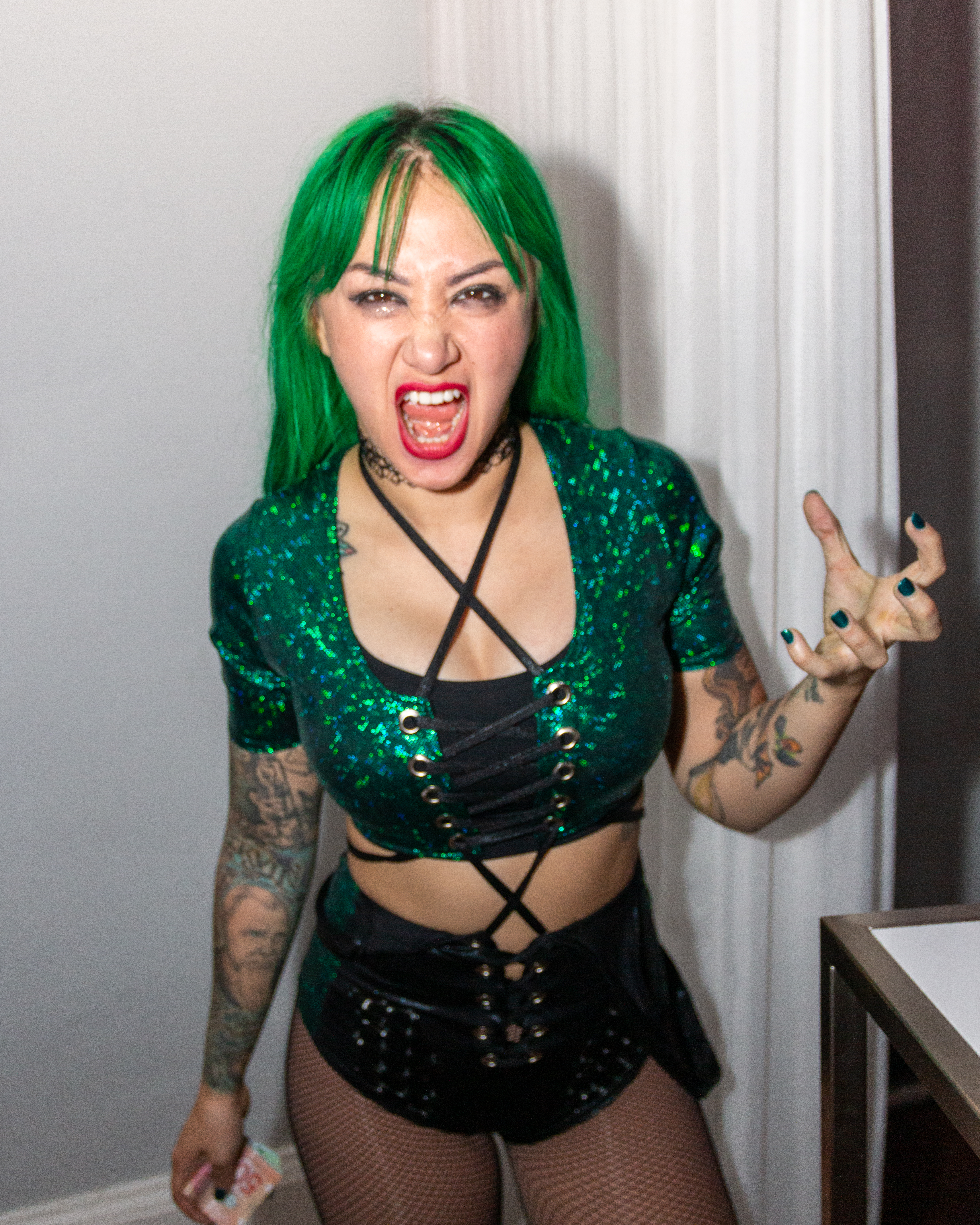 Independent wrestler Shotzi Blackheart at Smash Wrestling's The Summit show in Toronto, ON